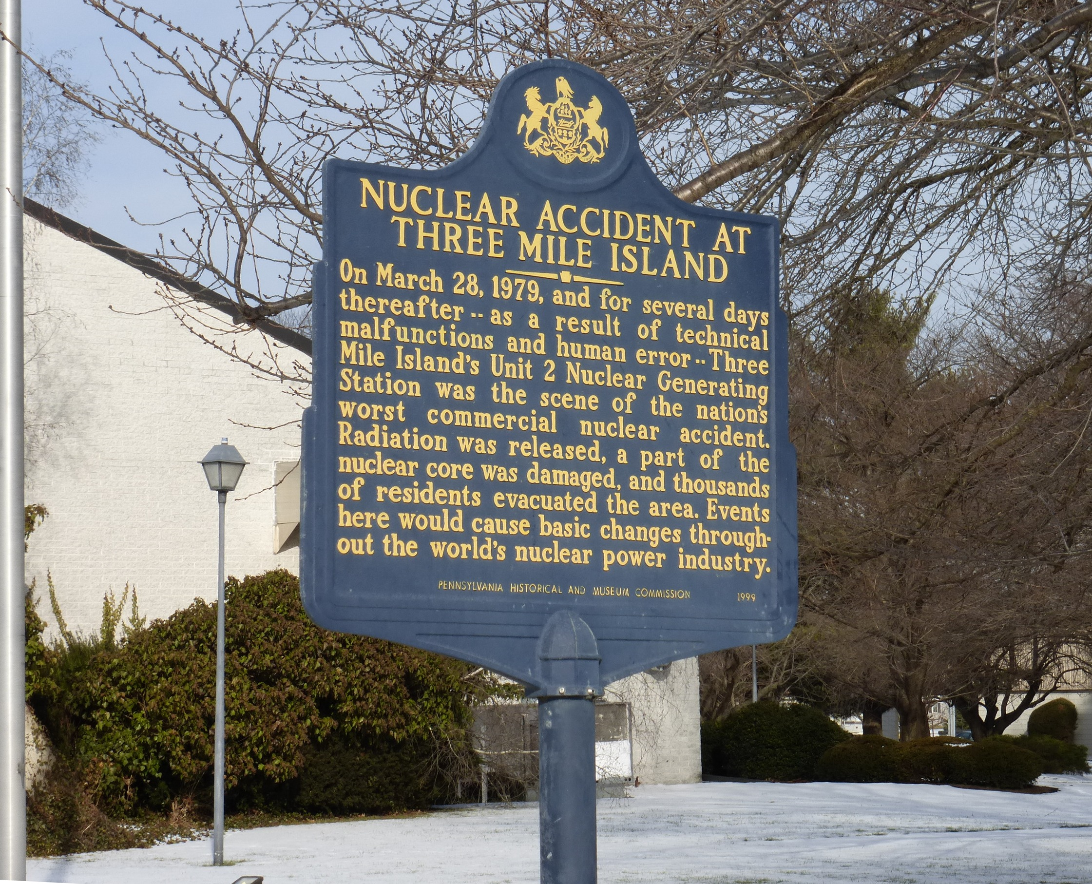 A sign in Middletown, Pennsylvania dedicated in 1999 describing the Three Mile Island accident, the evacuation of the residents in the area, and the impacts to the nuclear power industry.